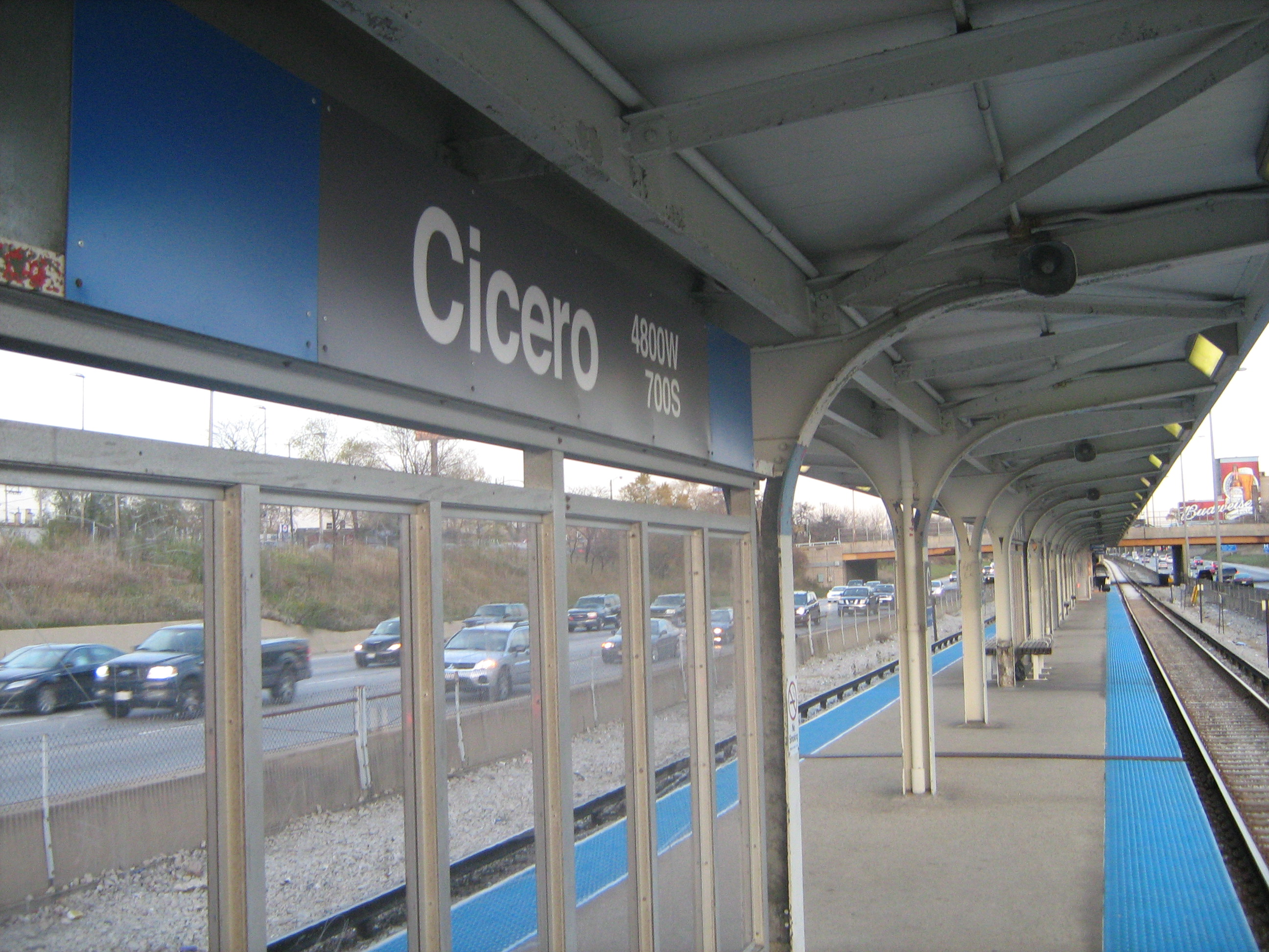 Cicero CTA Blue Line Station